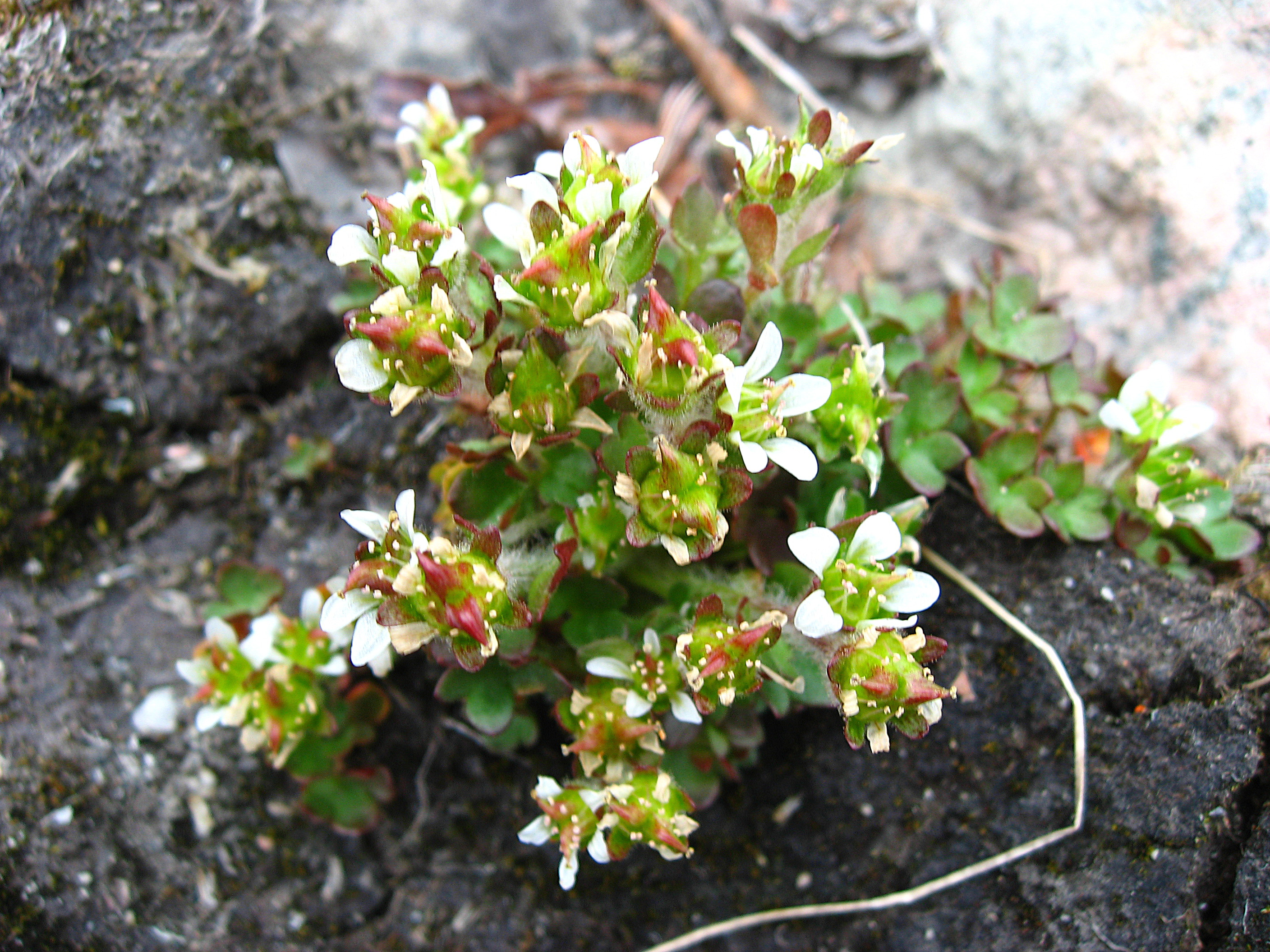 Solitary individual of Pygmy Saxifrage (Saxifraga hyperborea) near Upernavik, Greenland.